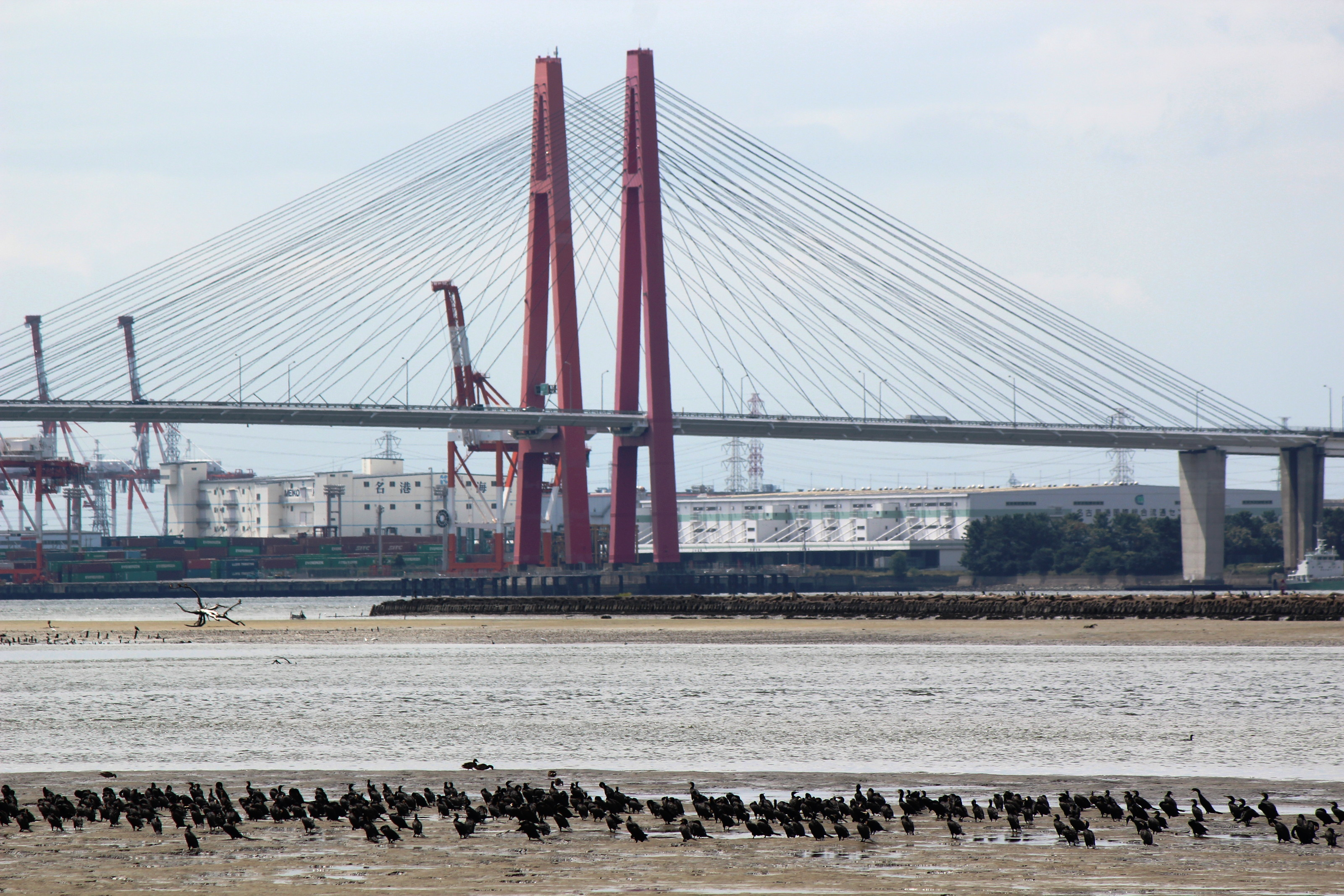 Phalacrocorax carbo hanedae (Great Cormorant) flocks and Meiko Nishi Bridges in Fujimae-higata